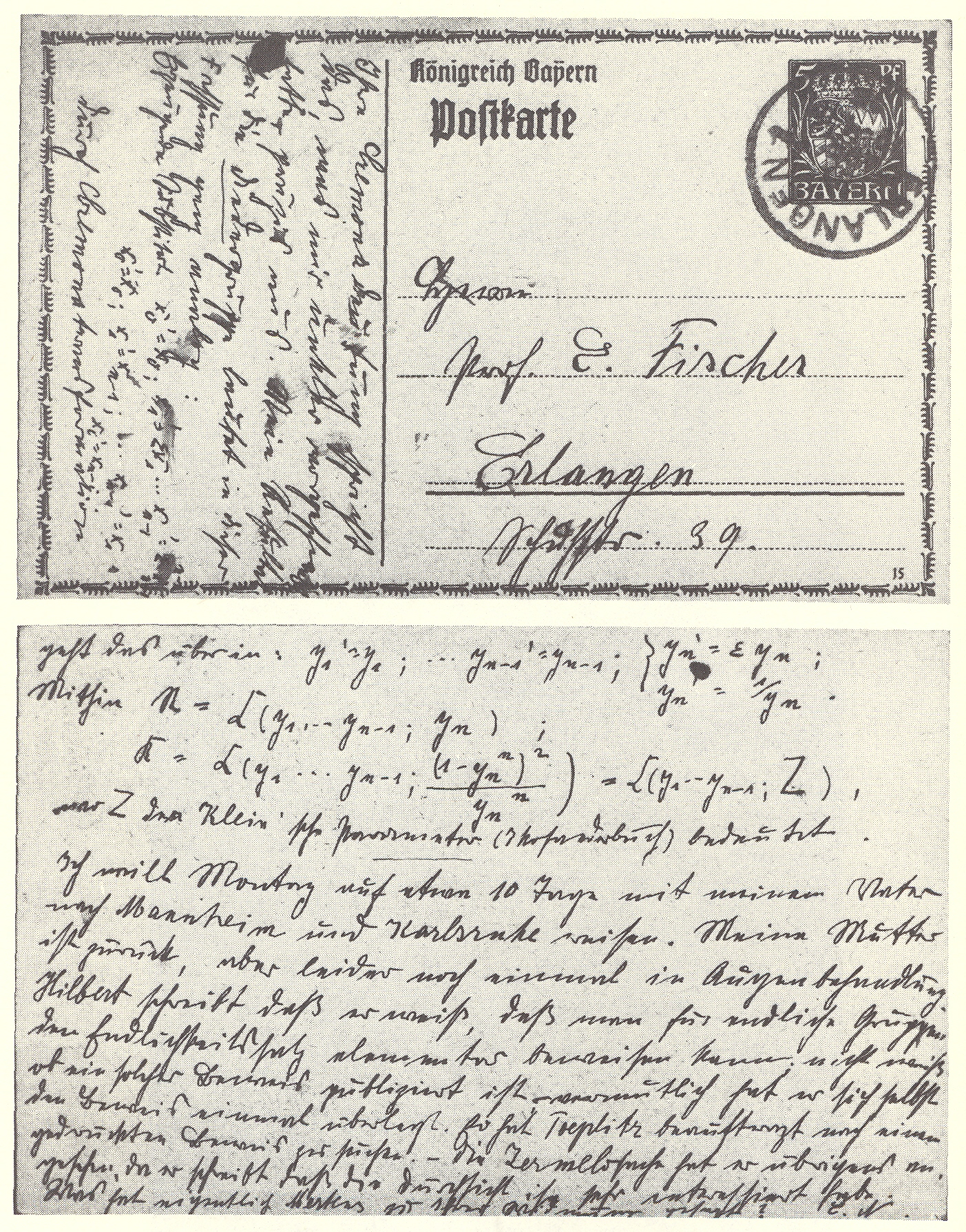 Postcard from Emmy Noether to E. Fischer. Postmarked 10 April 1915.